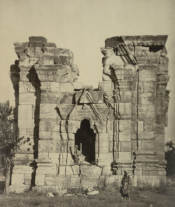 Shankaragaurishvara temple at Patan, on the road between Srinagar and Baramula: view of the front or west face